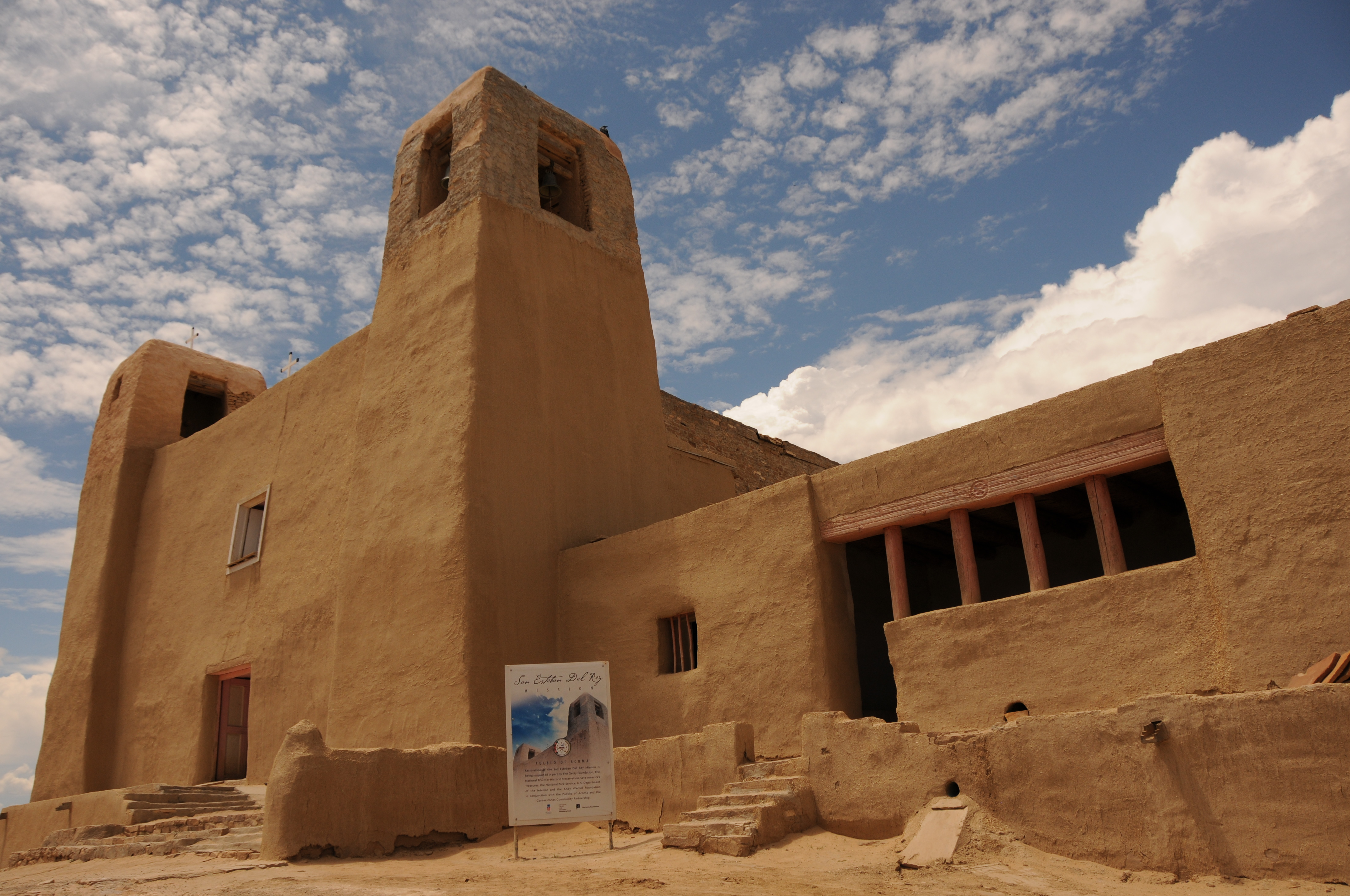 San Esteban Del Rey Mission Church, Acoma, New Mexico